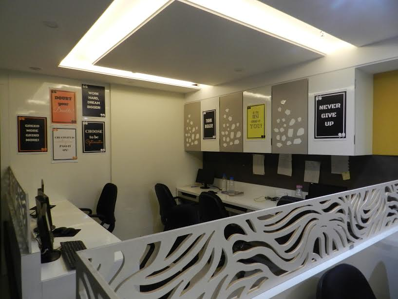 ADITED provides a coworking space in Indore (Madhya Pradesh) or shared office space in indore which is one of a kind. Along with our bundle of amenities,we also provide inhouse graphic designing and digital marketing services. For more info visit